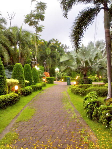 The area of Three great good of agriculutres monument, Kasetsart University